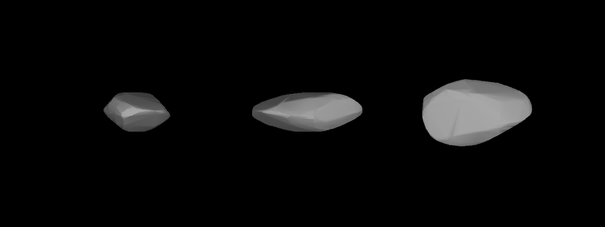 A three-dimensional model of 889 Erynia that was computed using light curve inversion techniques.